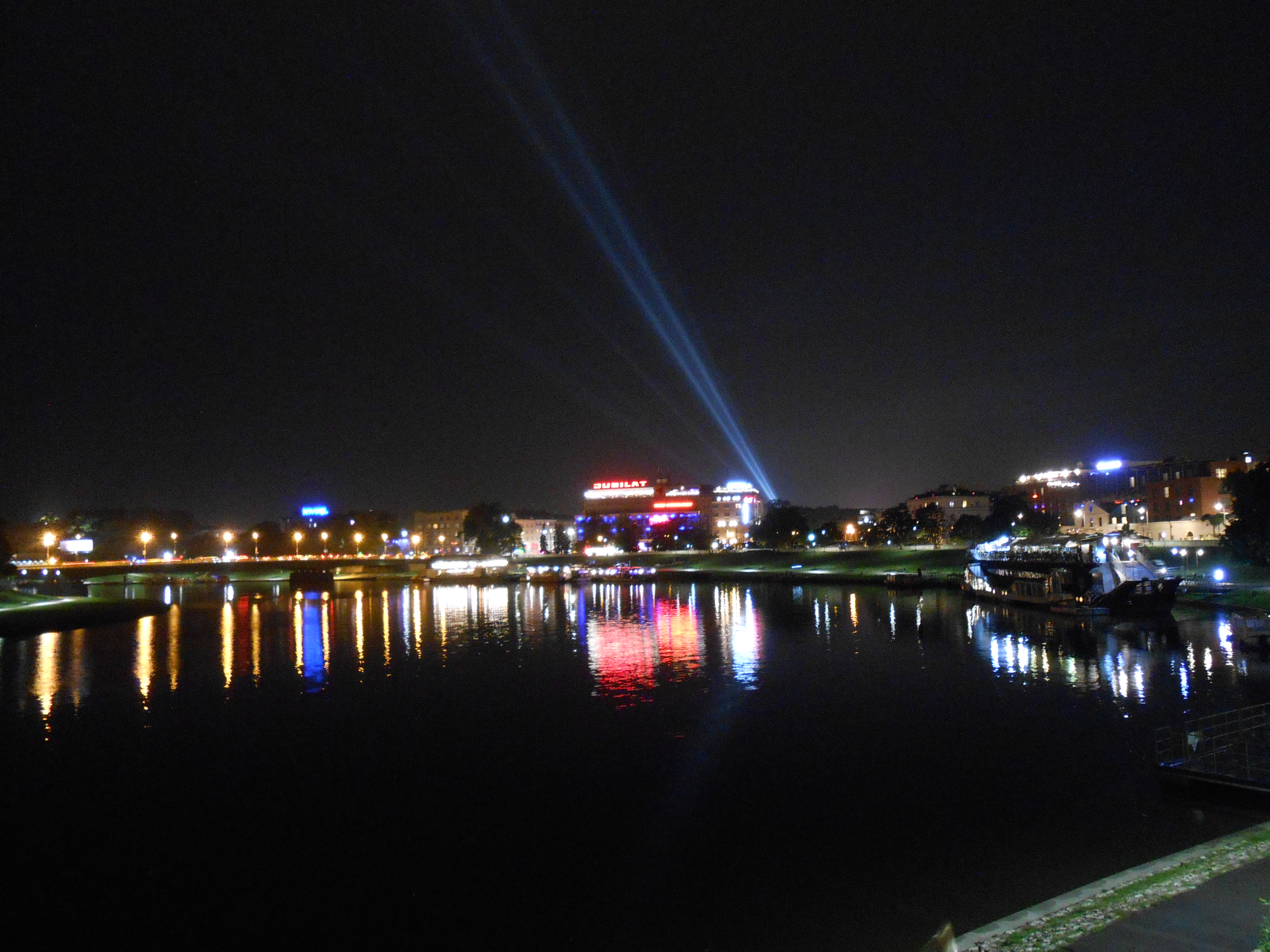 Vistula river in Cracow